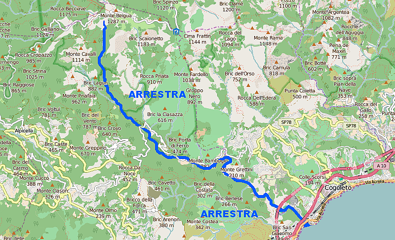 Arrestra river map (Liguria, Italy)